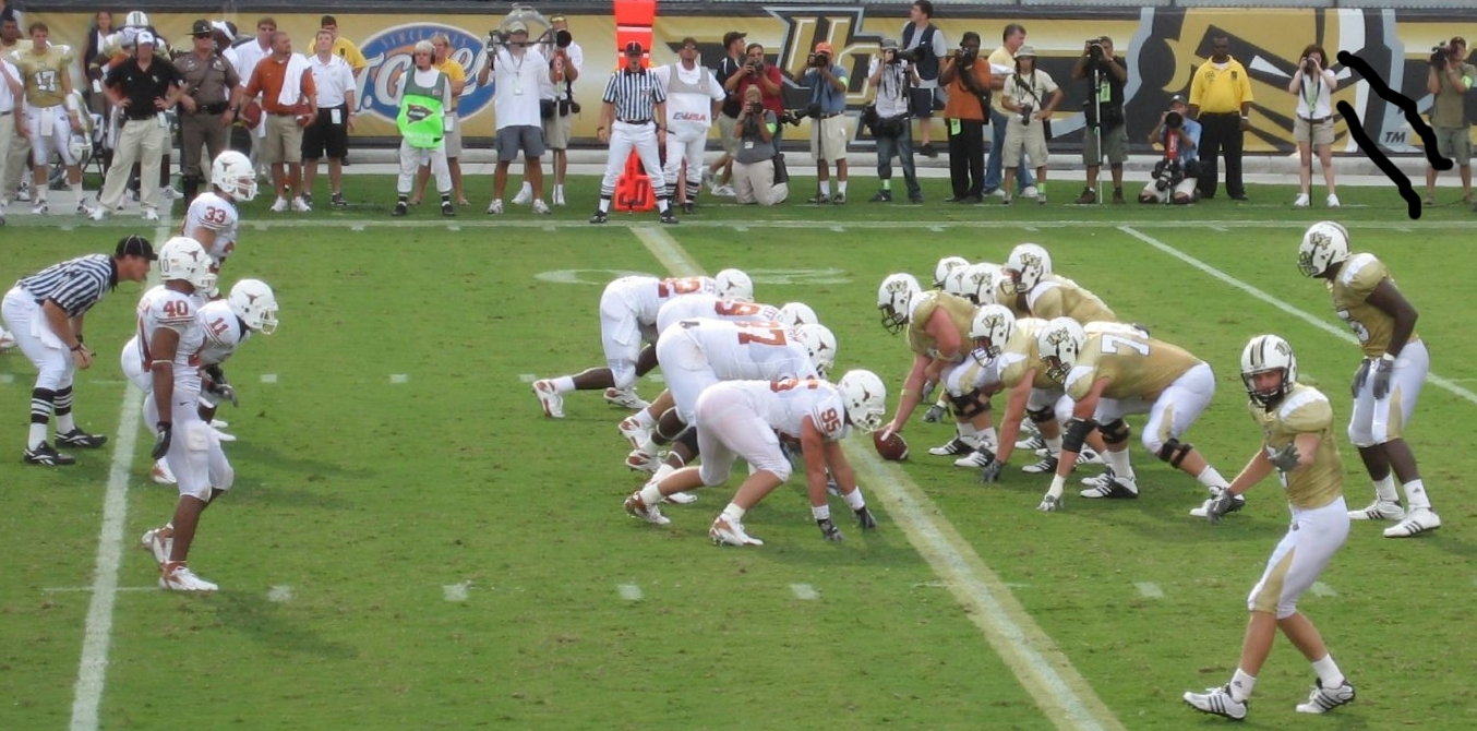 UCF Knights on offense against the Texas Longhorns - 2007 - opening day for Bright House Networks Stadium